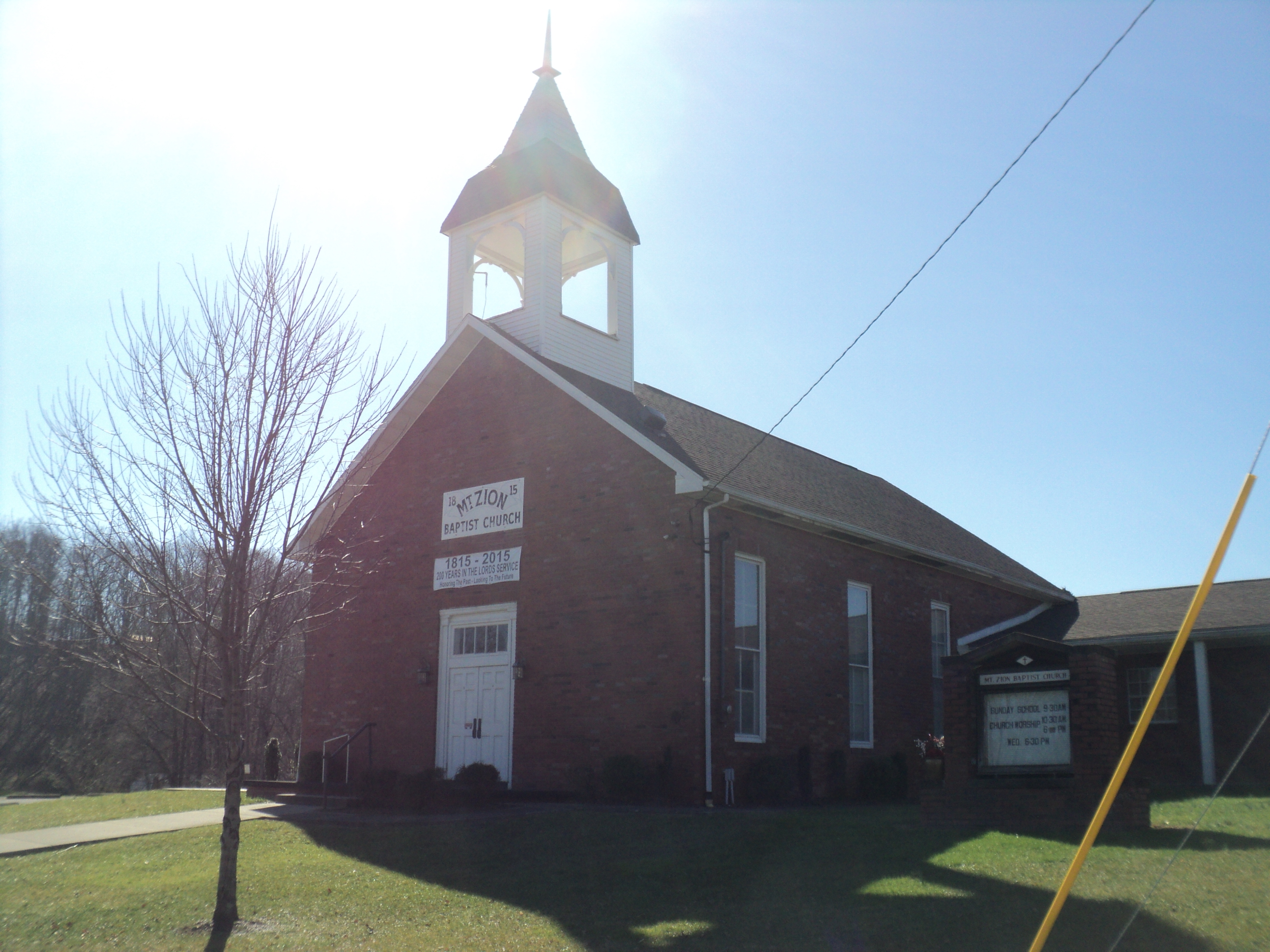 Mount Zion Baptist Church near Mineralwells, Wood County, West Virginia